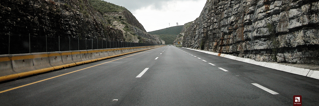 Mexican Federal Highway 85 at the Paso de Mamulique (midway between Monterrey and Laredo, Texas)